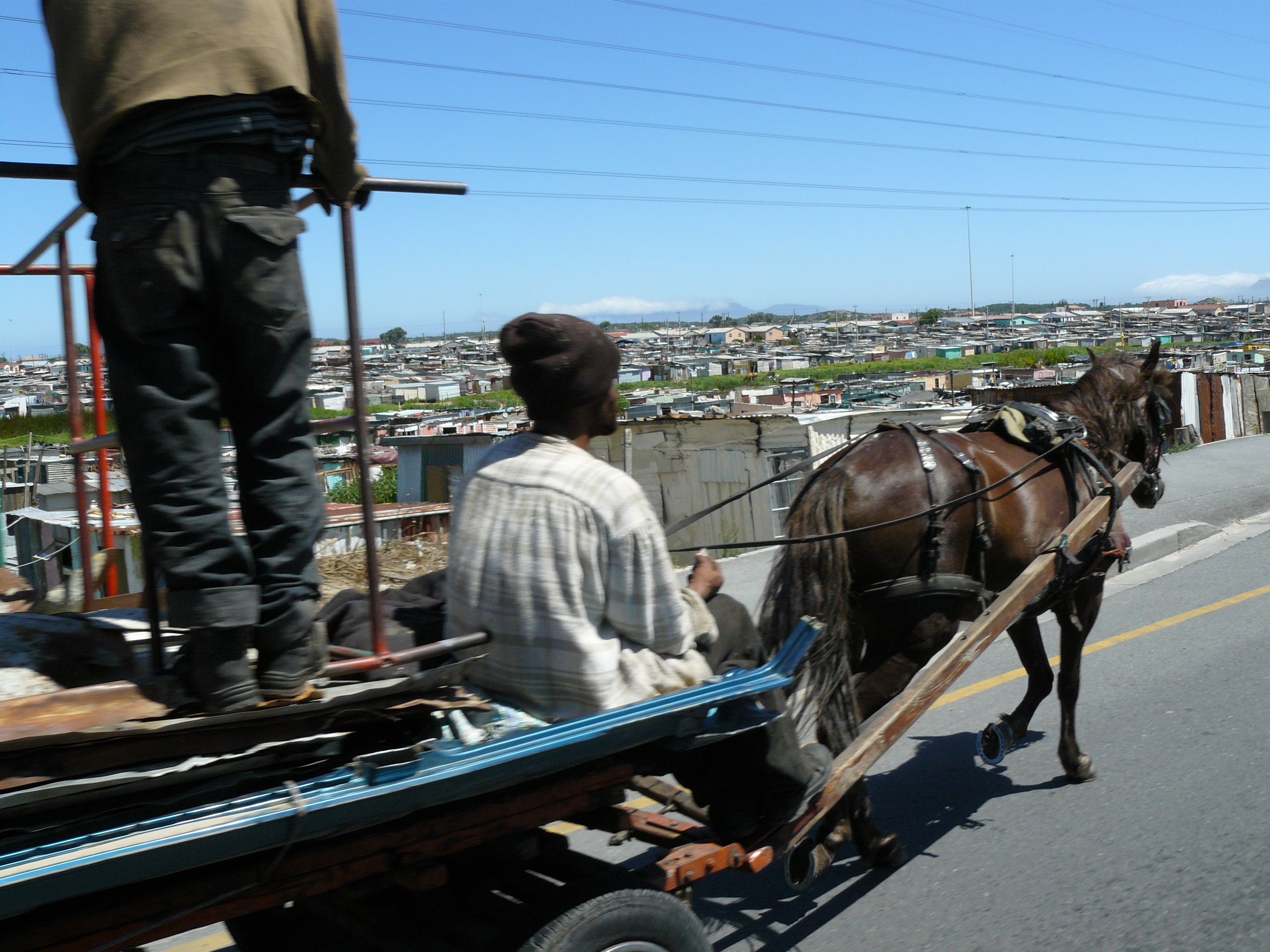 Khayelitsha Township, Western Cape